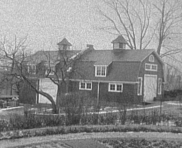 Photographer: Unknown Source: Library of Congress LC-D4-43347 Published: between 1900 and 1910 Gift from State Historical Society of Colorado, 1949 Title: Carriage house and ground at club, New York City Other versions: 150px Cropped by Beyond My Ken (talk) 02:51, 7 August 2010 (UTC)